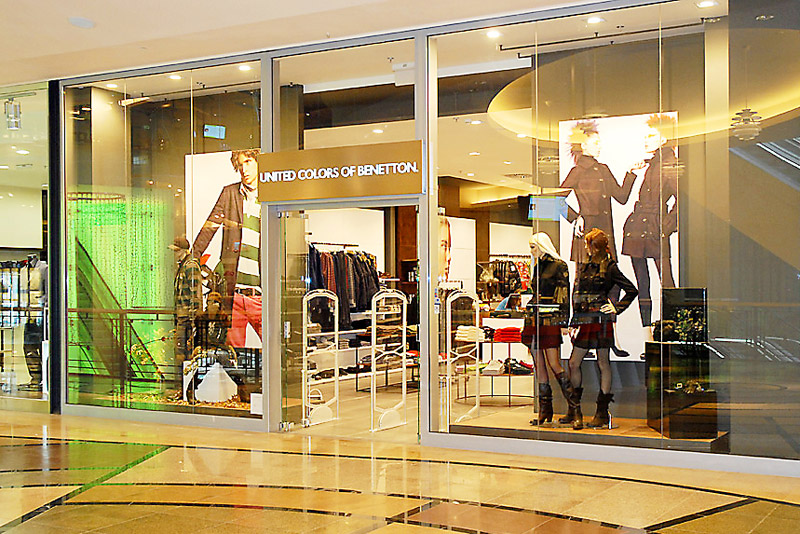 United Colors of Benetton store in PALLADIUM shopping centre, PRAGUE, CZECH REPUBLIC.